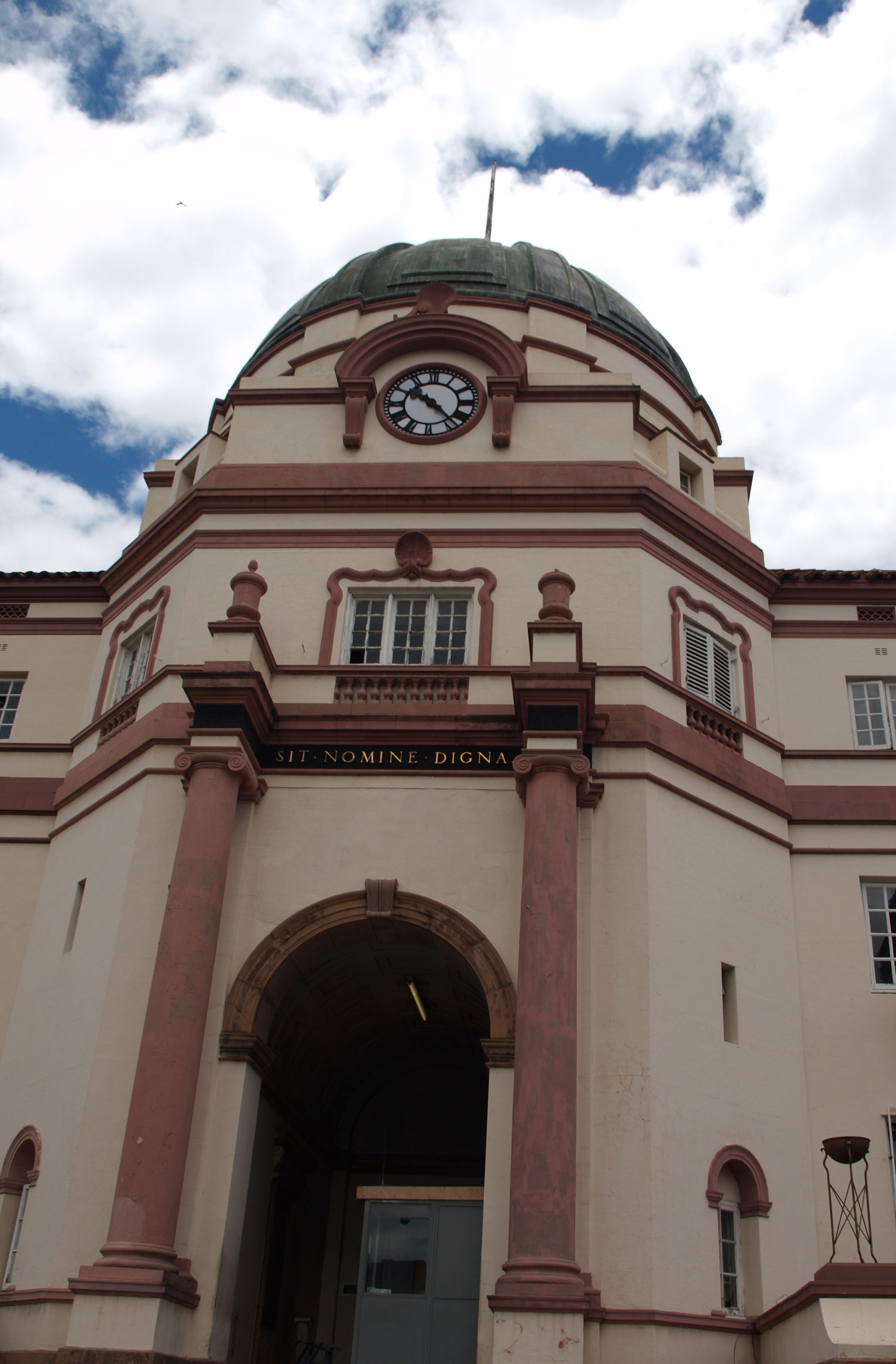 Zimbabwe, Bulawayo. High Court Palace, Bulawayo.